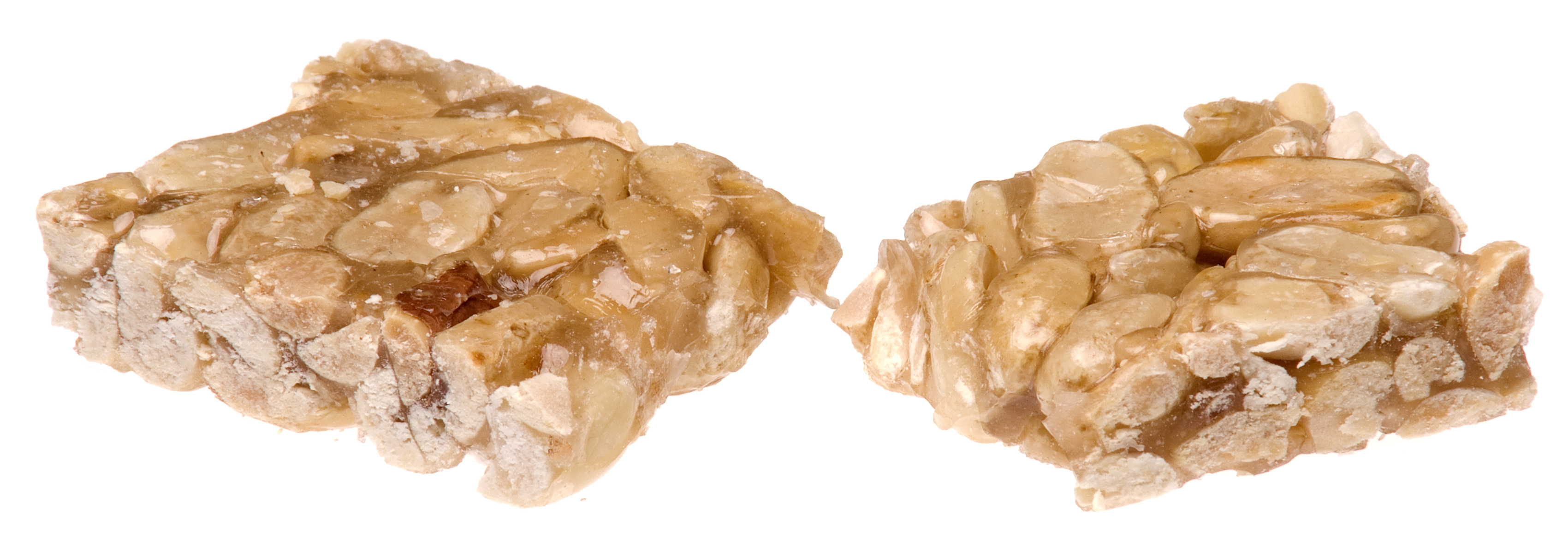 A Dominion Peanut Bar that has been split in half.